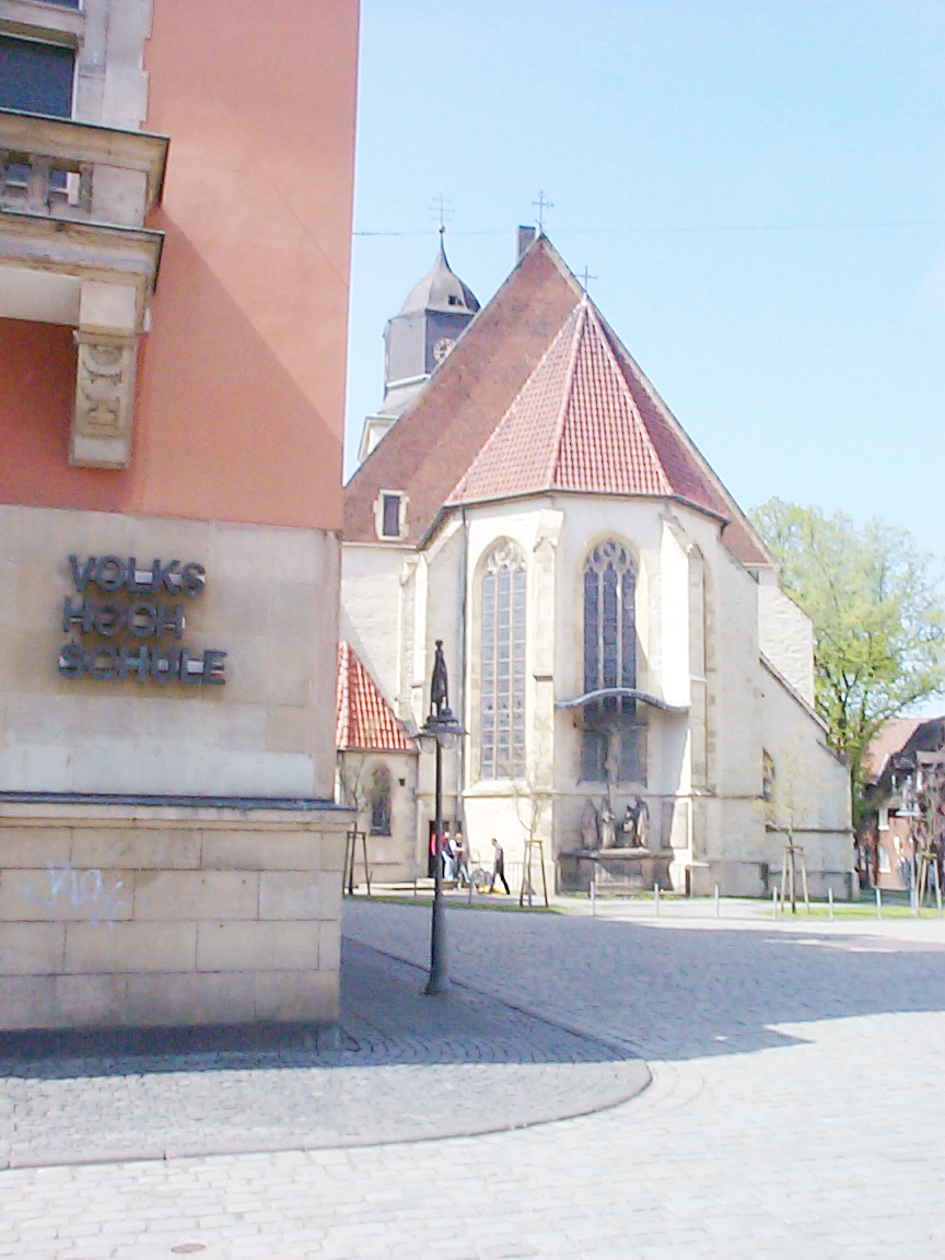 St. Bartholomaeus, oldest catholic church in Ahlen, Germany.